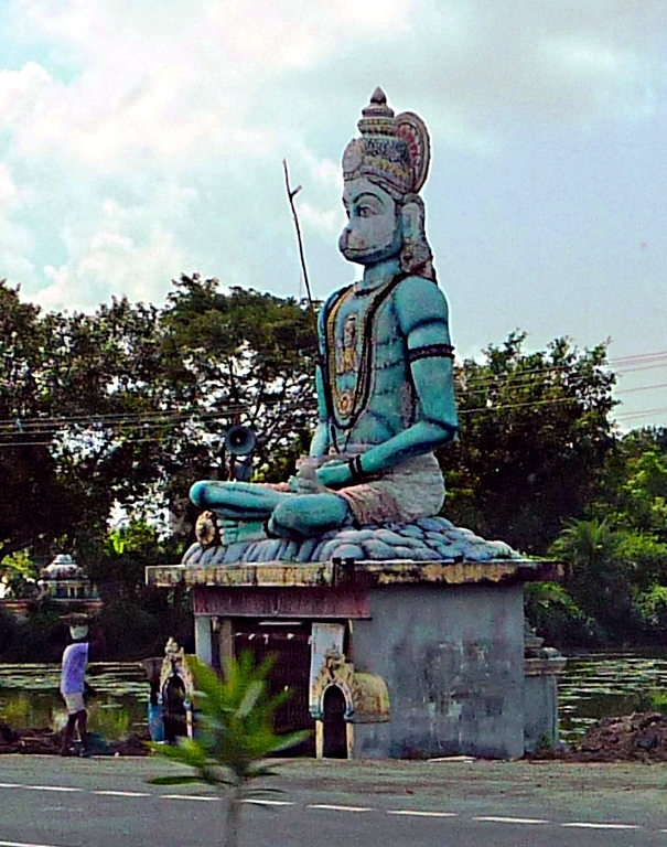 I took this photo on a trip through Tamil Nadu in 2010.